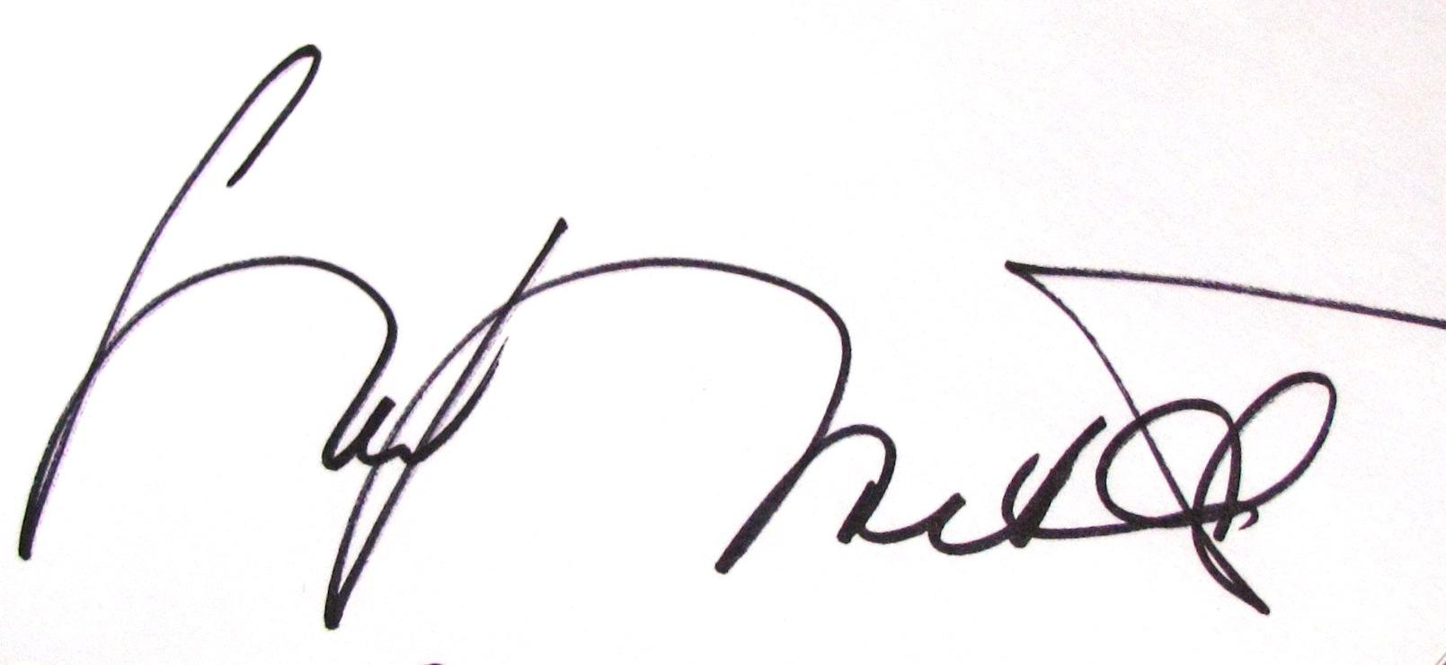 Signature of Iveta Bartošová, Czech vocalist (2008)